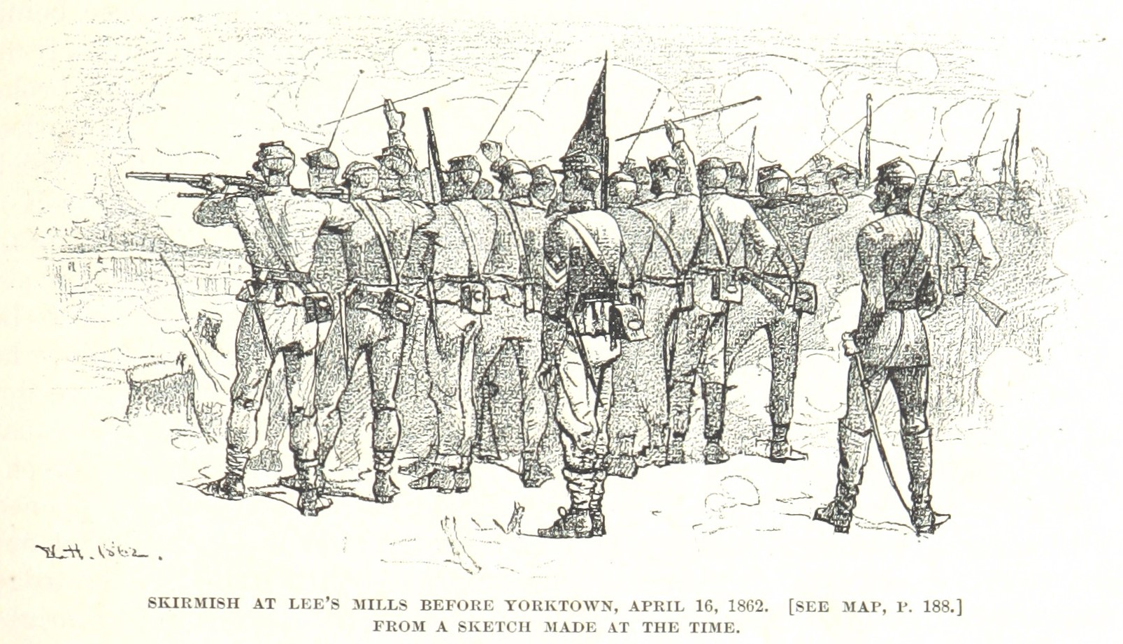 A skirmish outside Lee's Mills (Dam Number One), part of the Siege of Yorktown in 1862.